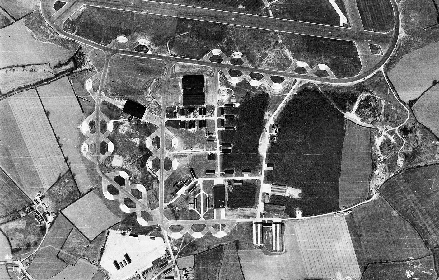 Aerial photograph of the USAAF 4th Strategic Air Depot at RAFWattisham looking north, 3 April 1946. Photograph taken by No. 540 Squadron, sortie number RAF/106G/UK/1365. English Heritage (RAF Photography).